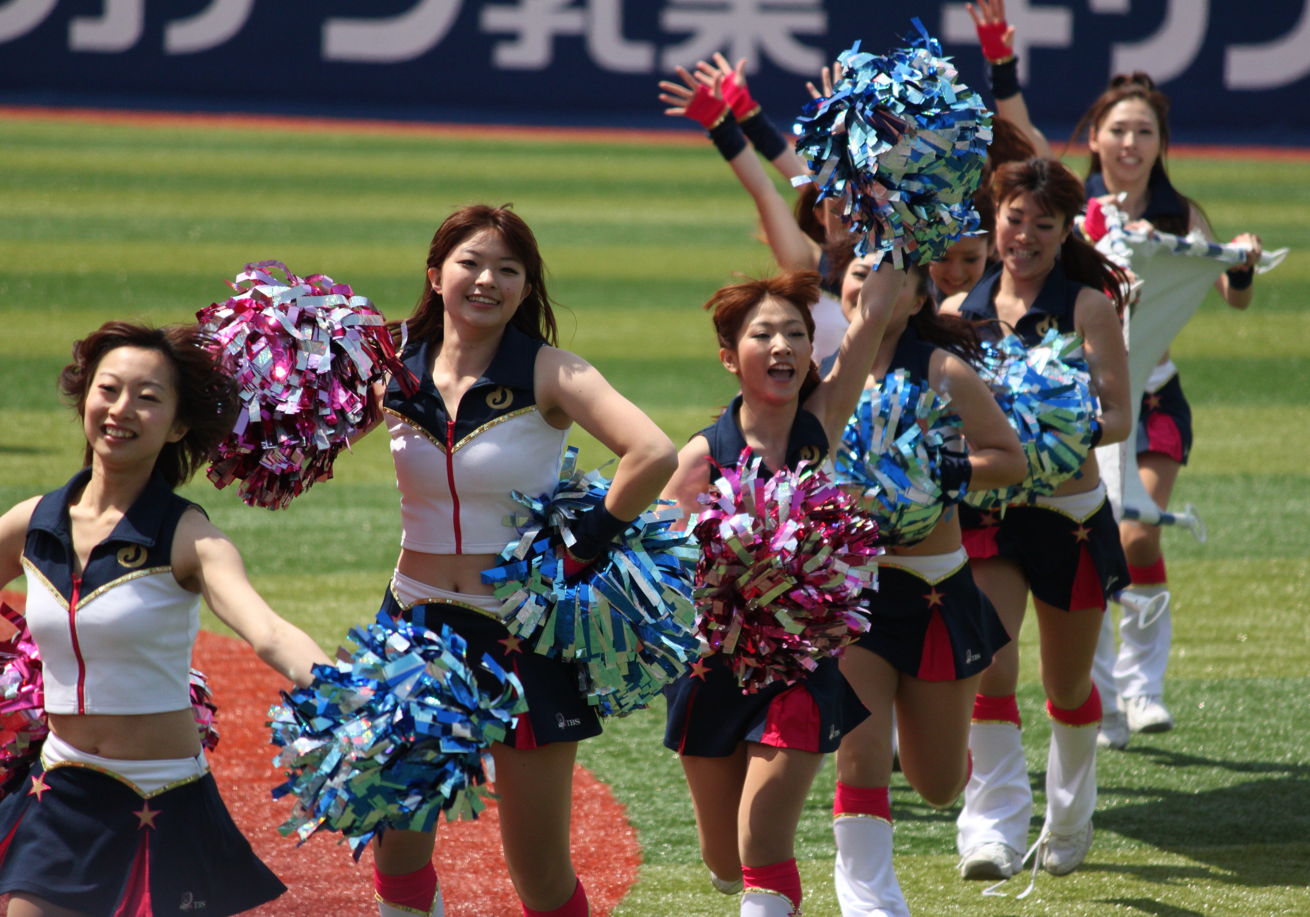 "diana", cheer team of the Yokohama BayStars, at Yokohama Stadium.